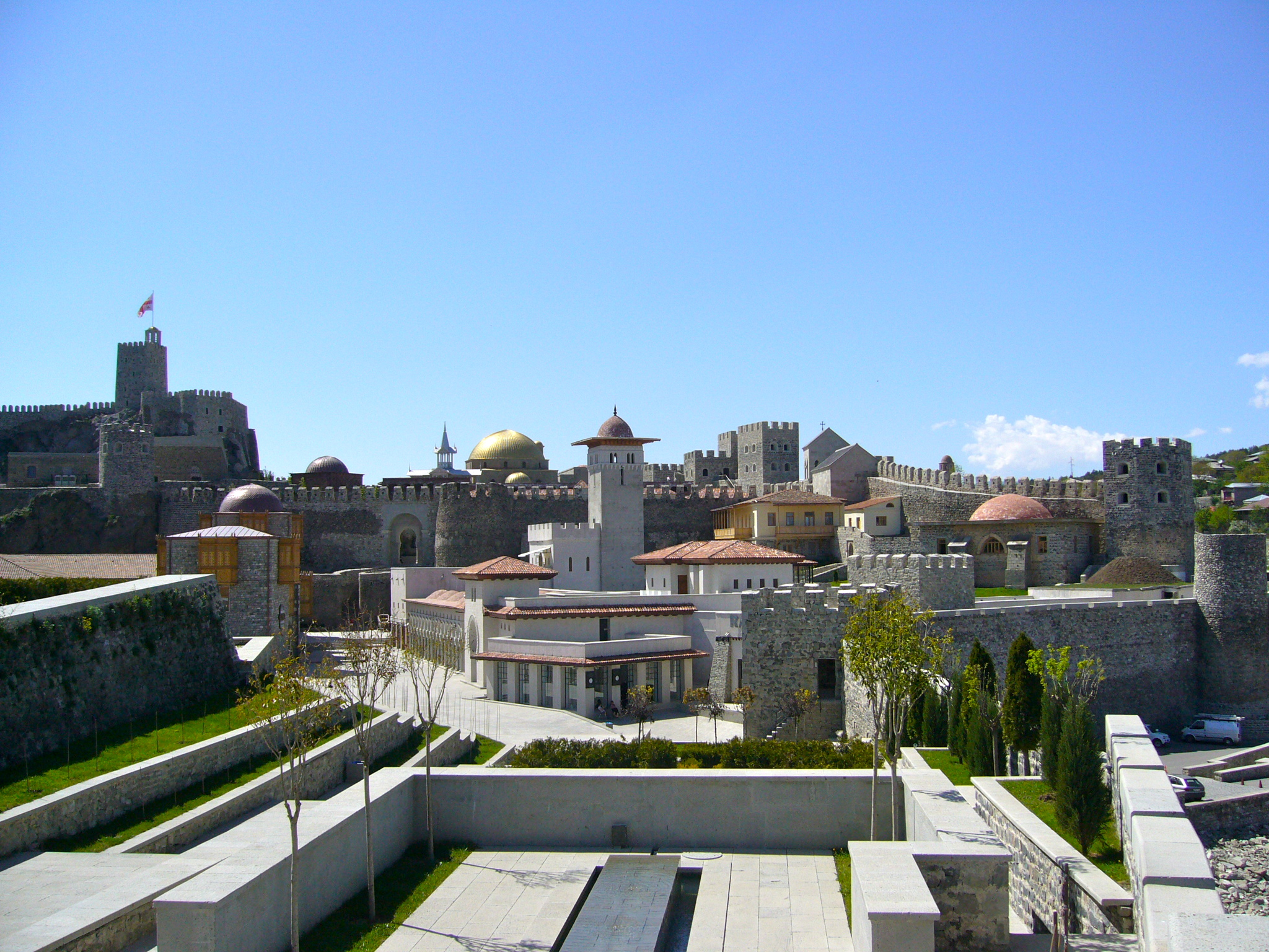 Akhaltsikhe, Georgia. May 2013